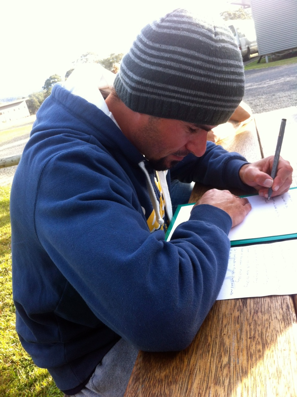 A participant in The Red Room Company's Unlocked program at Balund-a